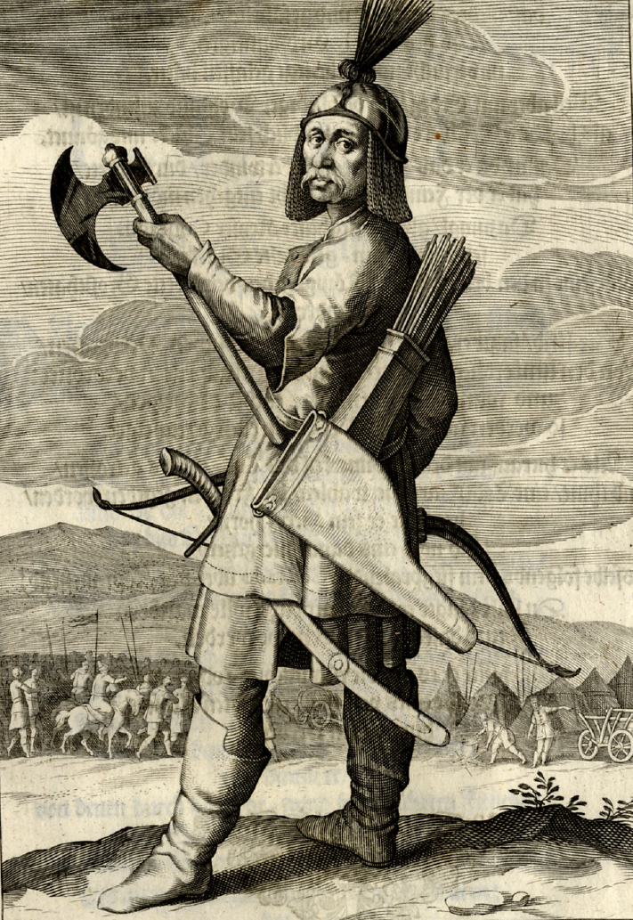 Bulcsú, Hungarian chieftain